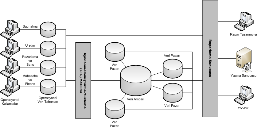 This file depicts the structure of a management information system (MIS).